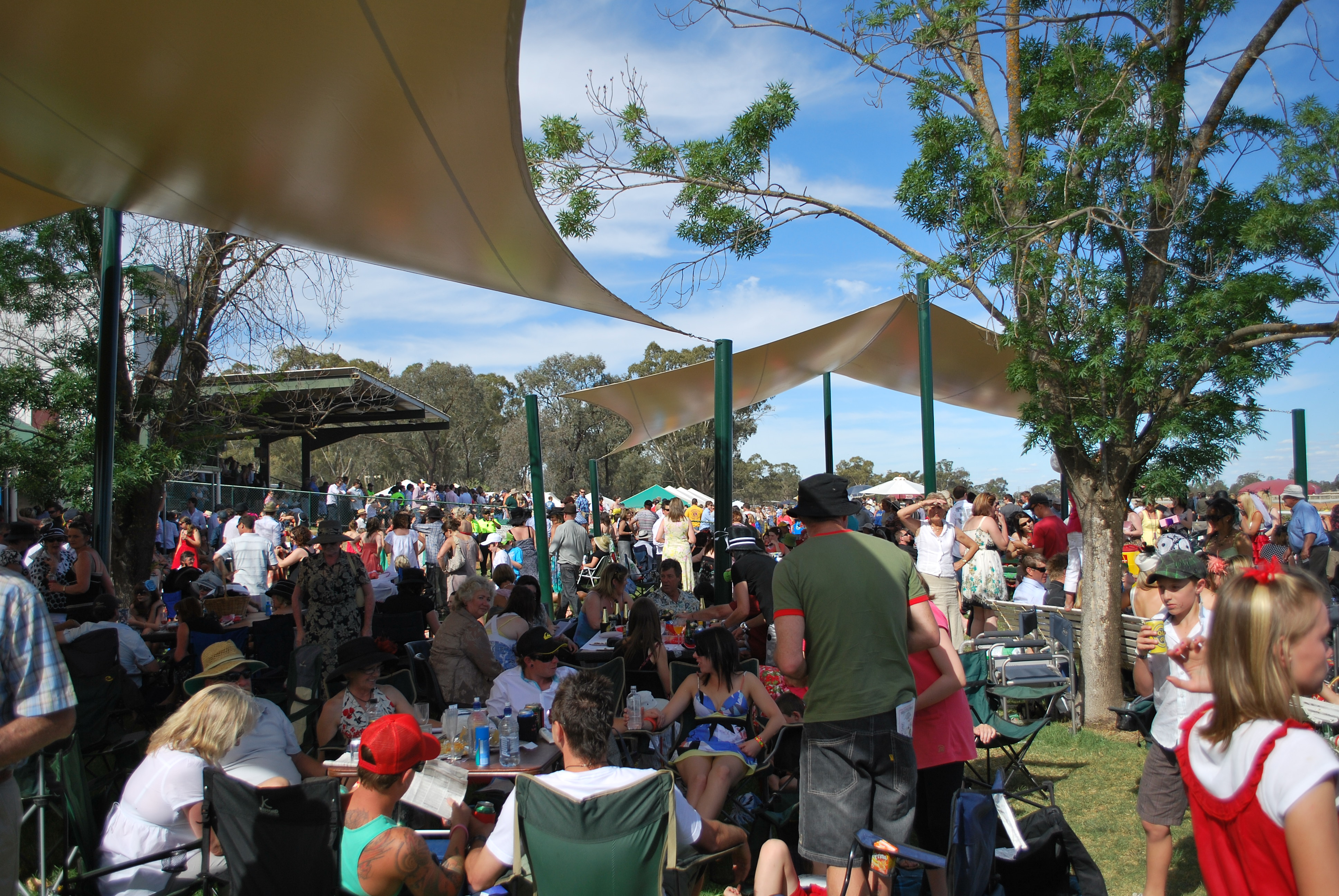 The crowd at the 2008 Berrigan Cup meeting at Berrigan, New South Wales